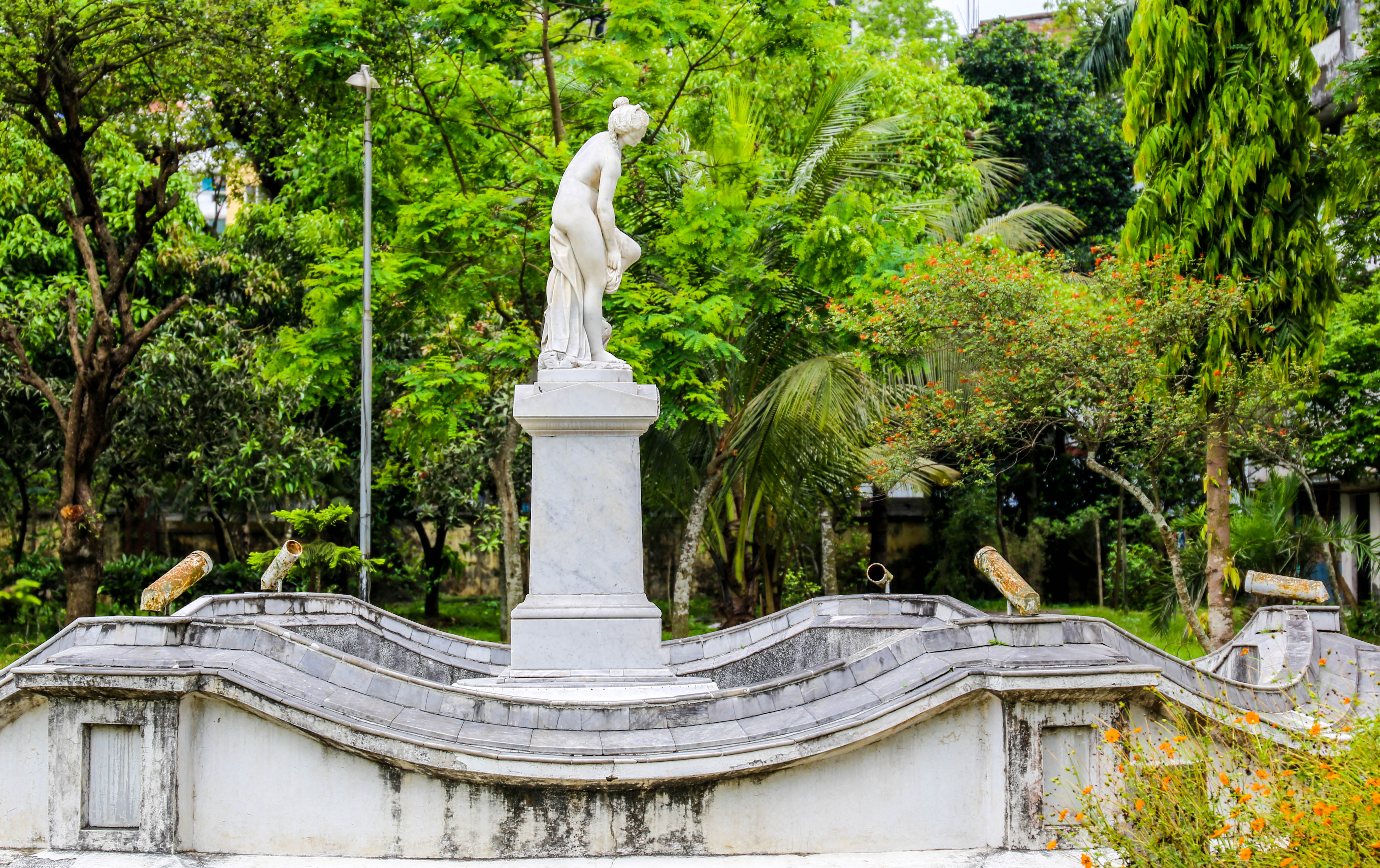 Statue of Venus at Shashi Lodge